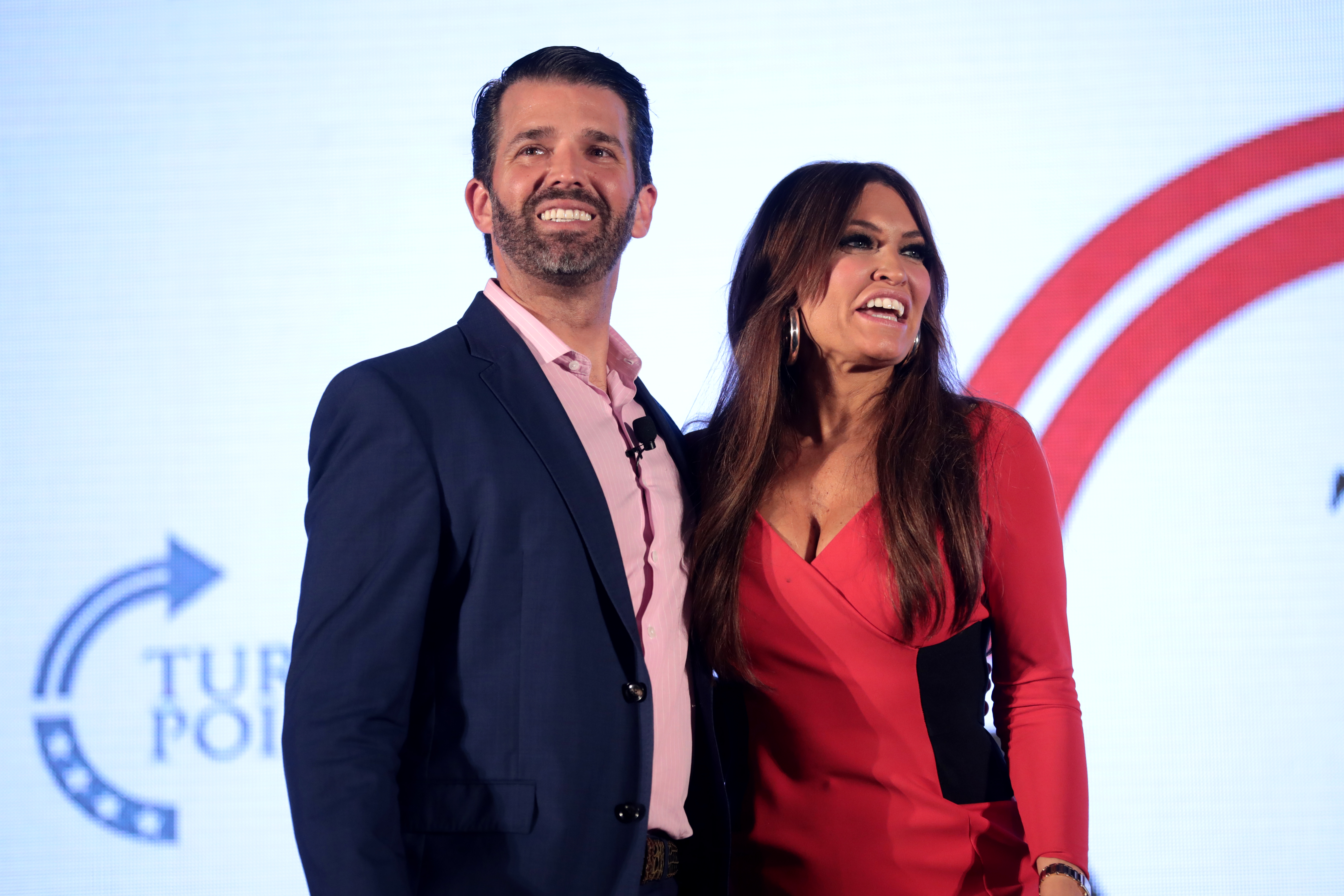 Donald Trump, Jr. and Kimberly Guilfoyle speaking with attendees at the 2019 Teen Student Action Summit hosted by Turning Point USA at the Marriott Marquis in Washington, D.C.